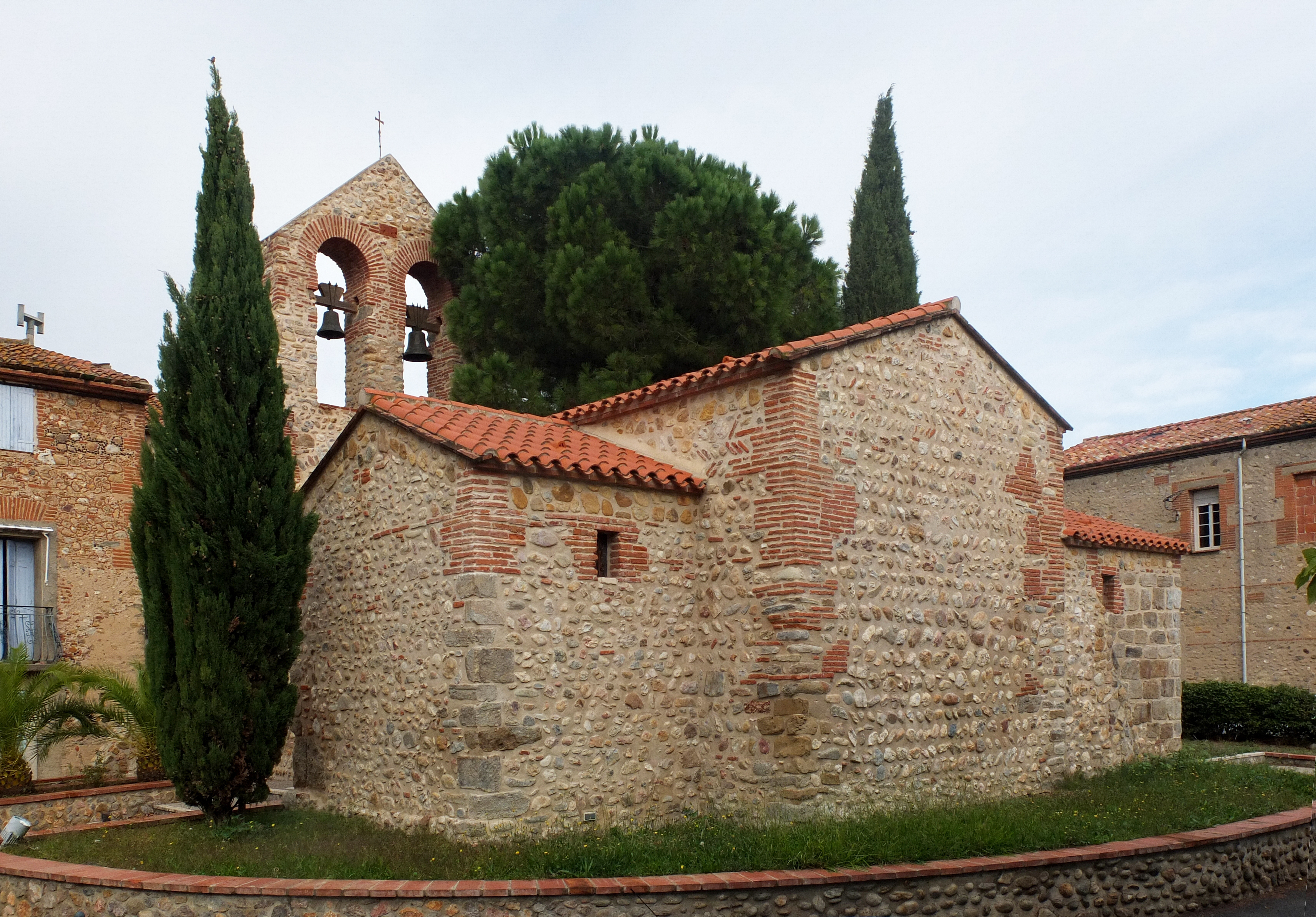 "Église Saint-Jean" in Saint-Jean-Lasseille (France), view SE